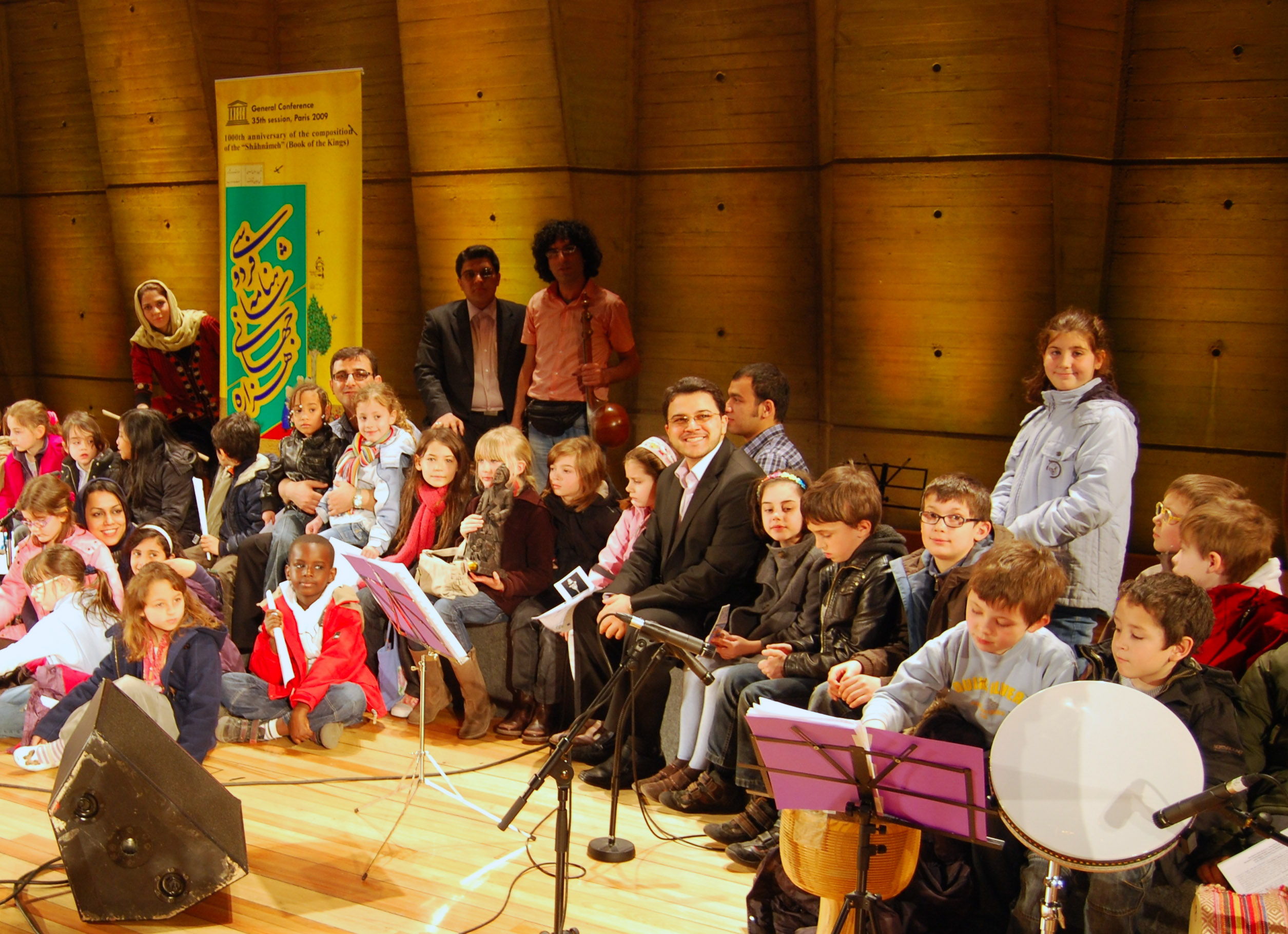 Ferdowsi Millennium Celebration in UNESCO.